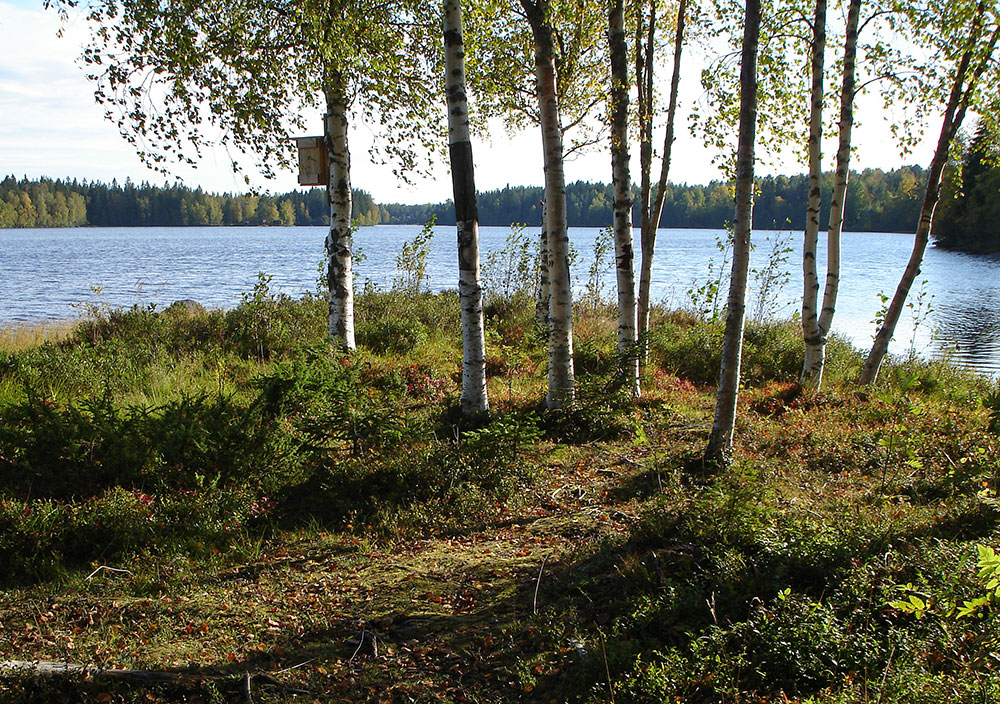 Lake Västerlåndsländan near Holmsund, Umeå Municipality, Sweden.